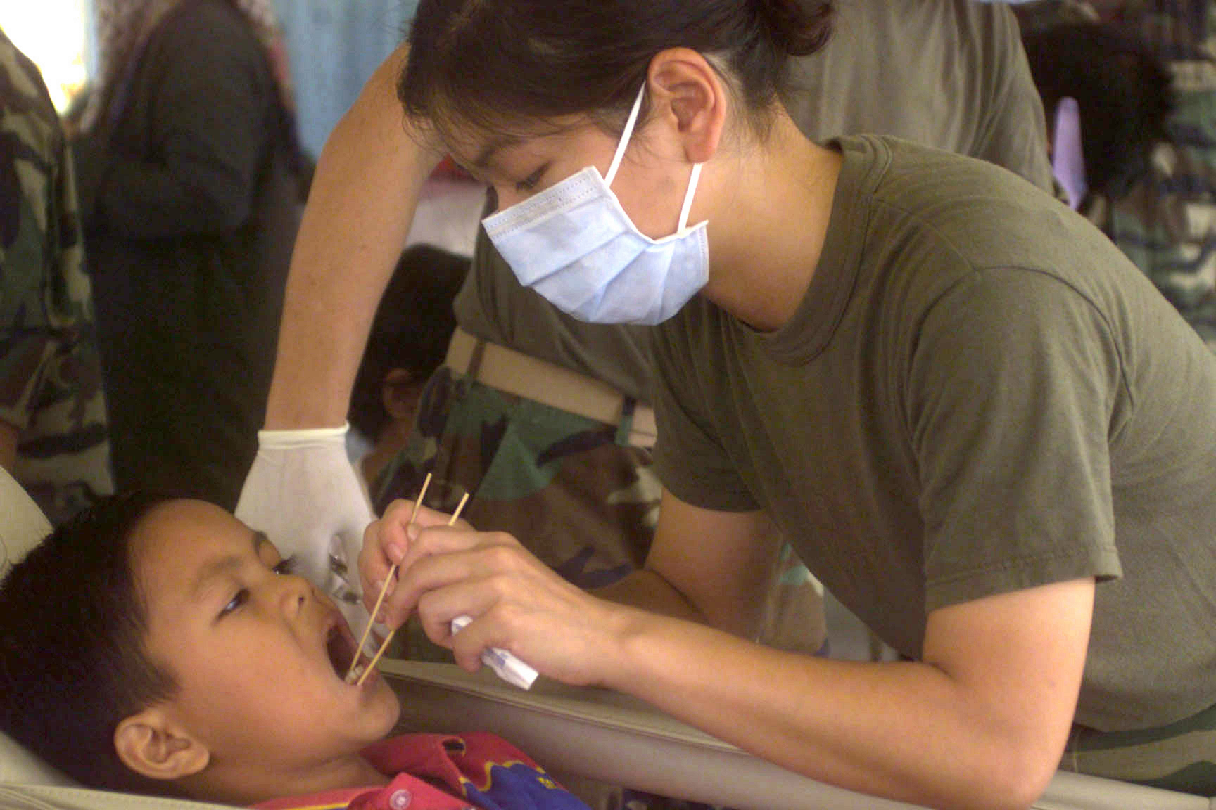 Paloh Nilai, Malaysia (Jun. 23, 2002) -- U.S. Navy Lieutenant Emme Wong from Manhattan, NY, a Dental Officer participating in exercise Landing Force Cooperation Readiness and Training (LF CARAT), applies Novocain to a local Malaysian youngster's mouth before removing a decayed tooth. During a medical and dental civic action project, U.S. Military dentists and doctors treated more than 150 townspeople. "LF CARAT" consists of a series of bilateral training exercises involving the U.S. Navy, U.S. Marine Corps, U.S. Army, U.S. Coast Guard, and several Asian countries. U.S. Marine Corps photo by Corporal Glen R. Springstead. (RELEASED)